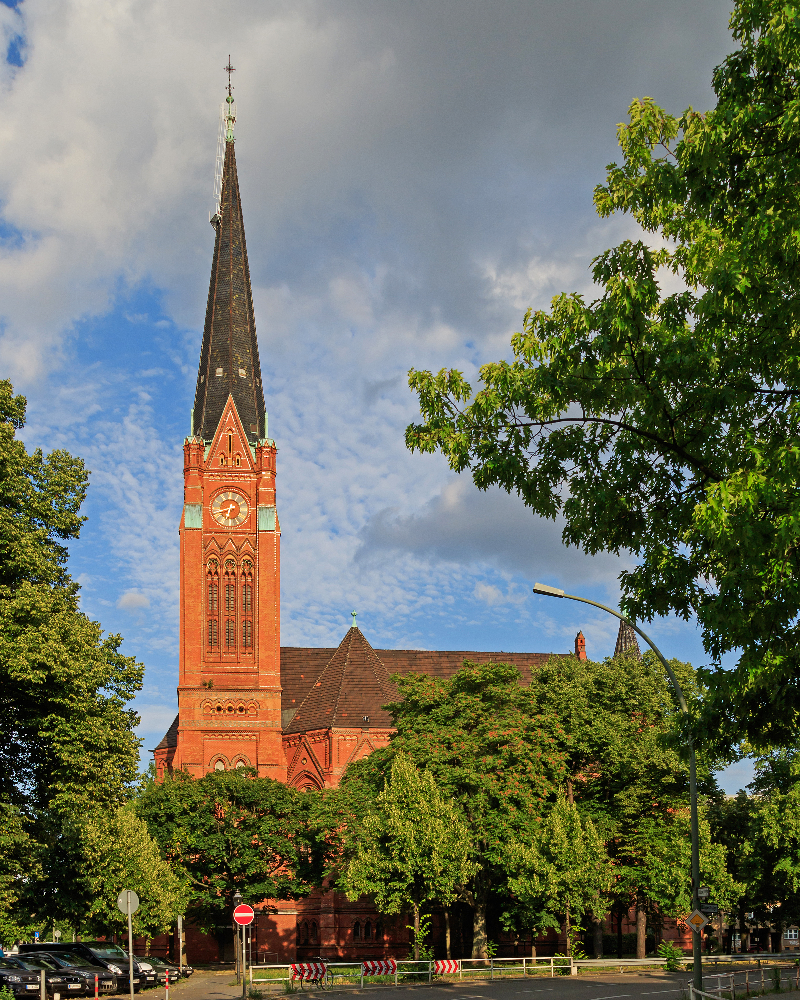 Luther Church in Berlin-Schöneberg